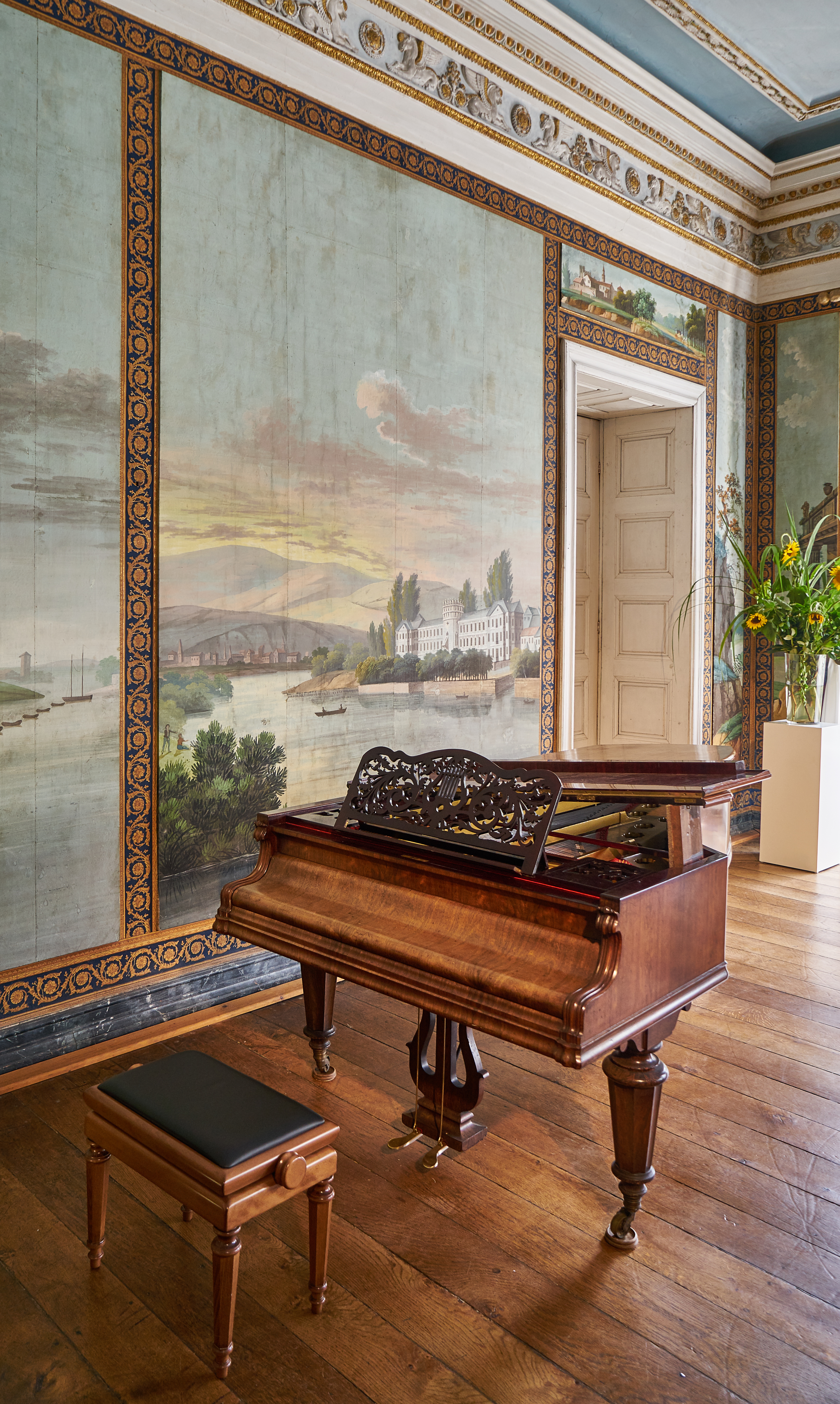 Stapel Manor, Havixbeck, district of Coesfeld, North Rhine-Westphalia, Germany. This is a photograph of an architectural monument.